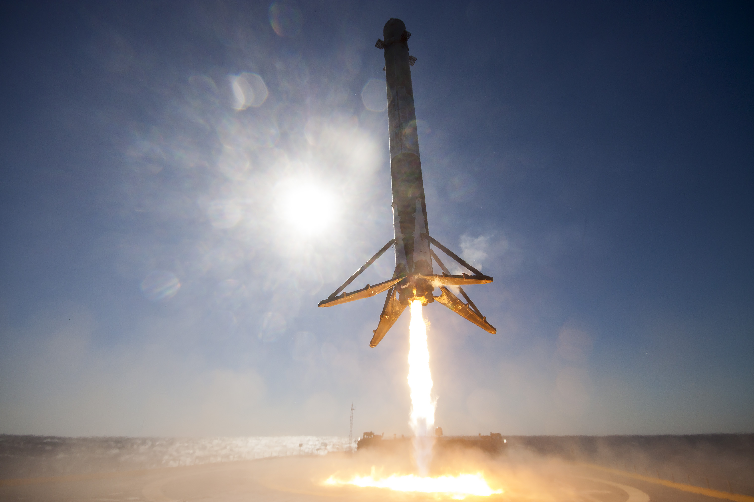 First stage of the SpaceX Falcon 9 rocket successfully landing on the commissioned Autonomous Spaceport Drone Ship for the first time on April 9. The mission, CRS-8, also launched the Dragon spacecraft to orbit.